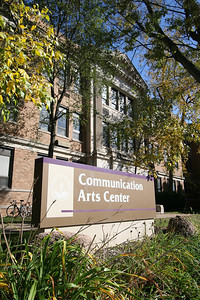 Comm Building1